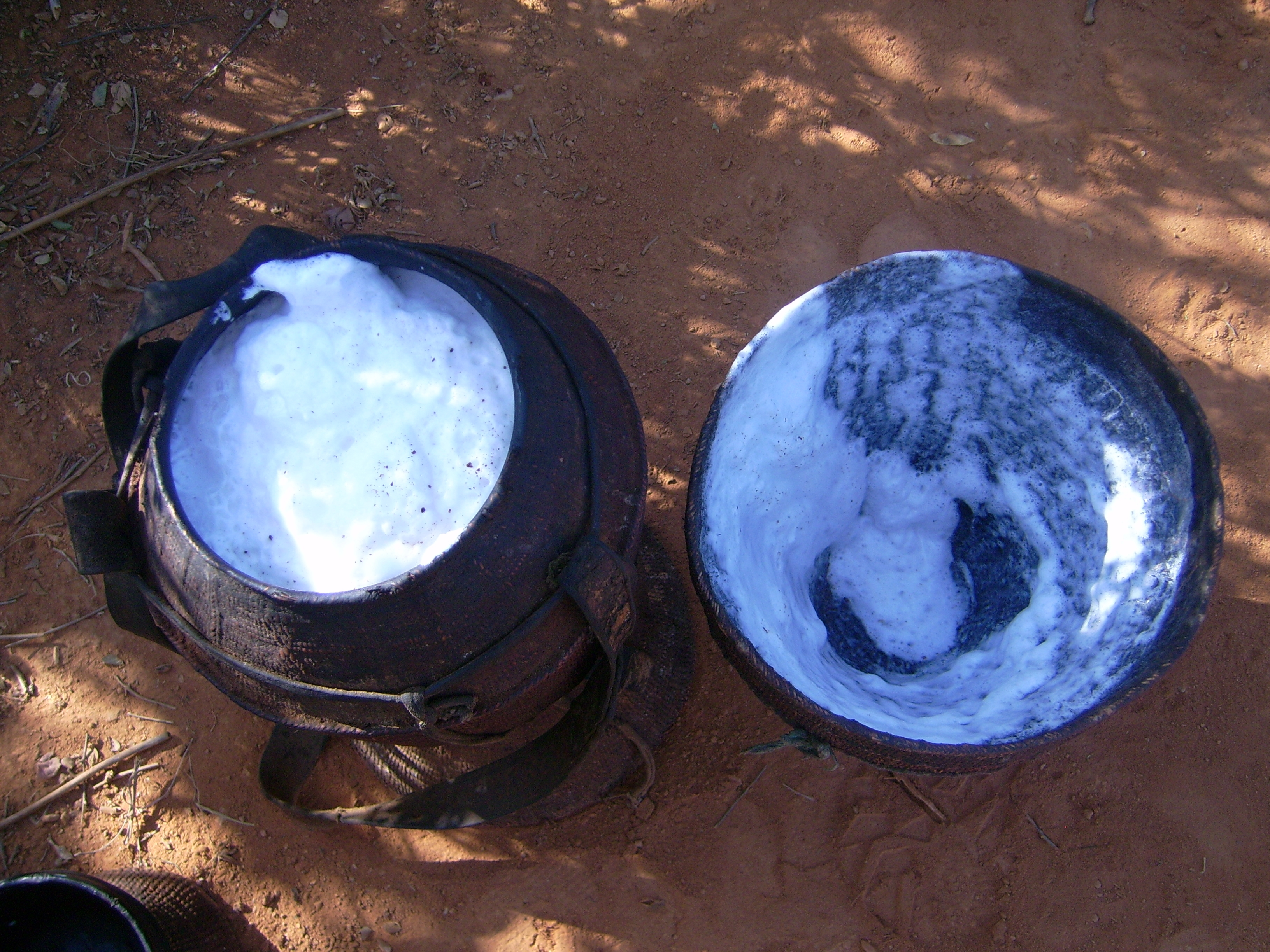 Camelidae milk